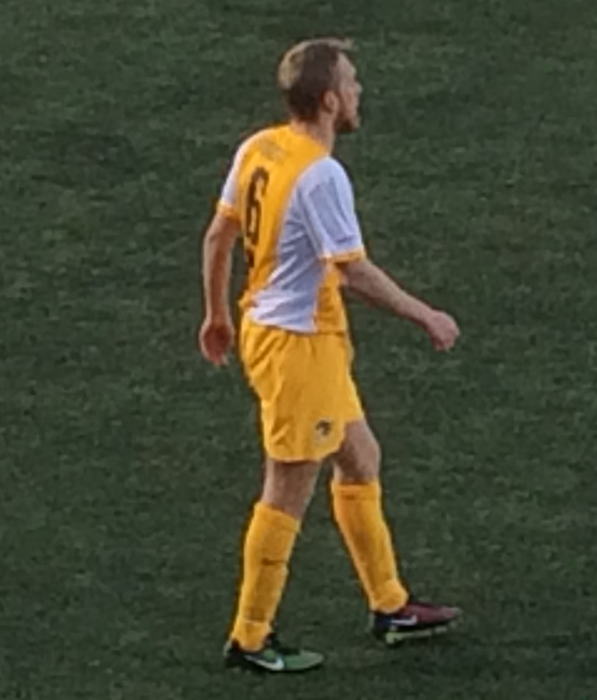 Rob Vincent with Riverhounds during 2015 season opener against Harrisburg City Islanders